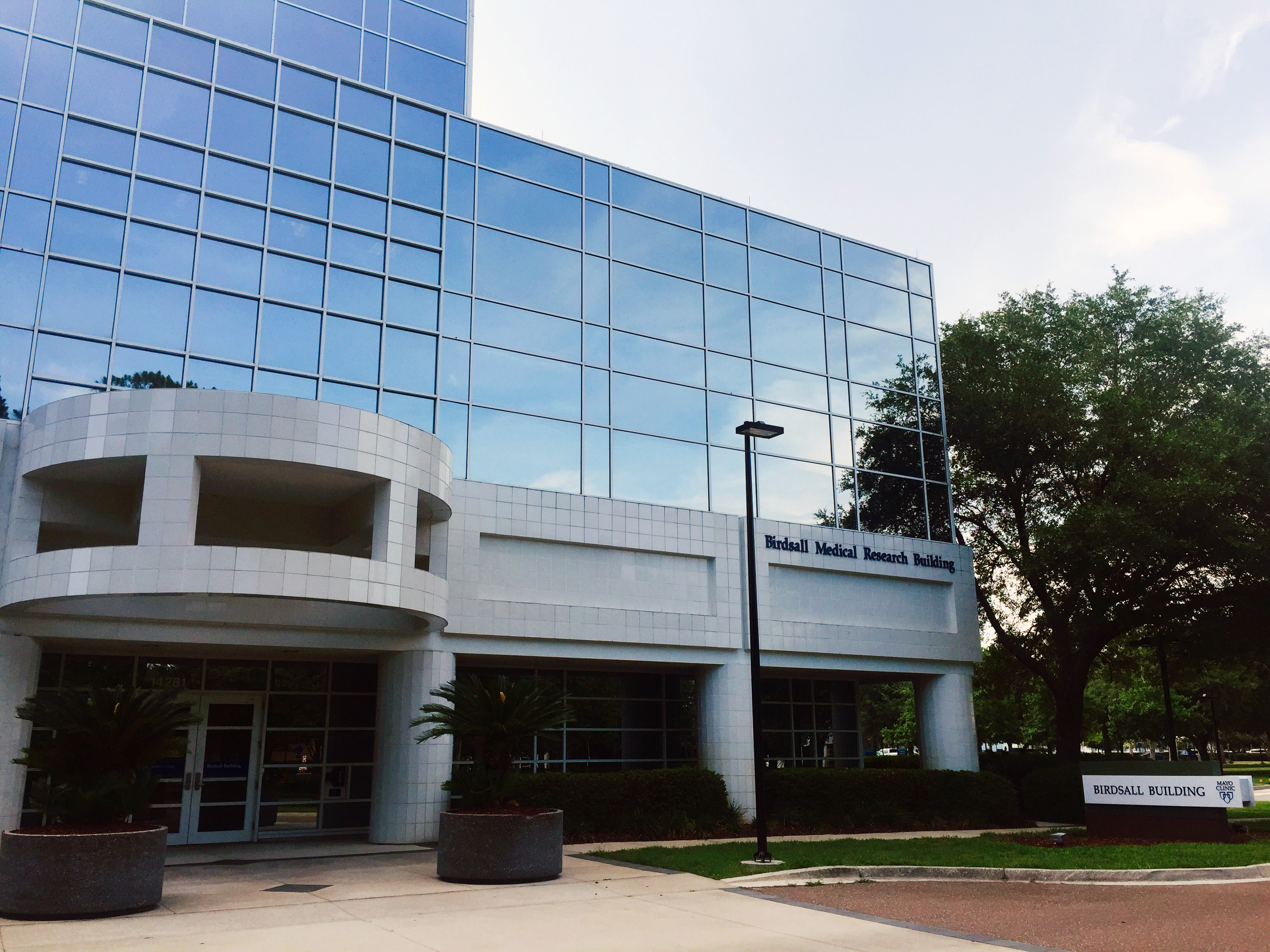 Mayo Florida campus Birdsall By Chloe